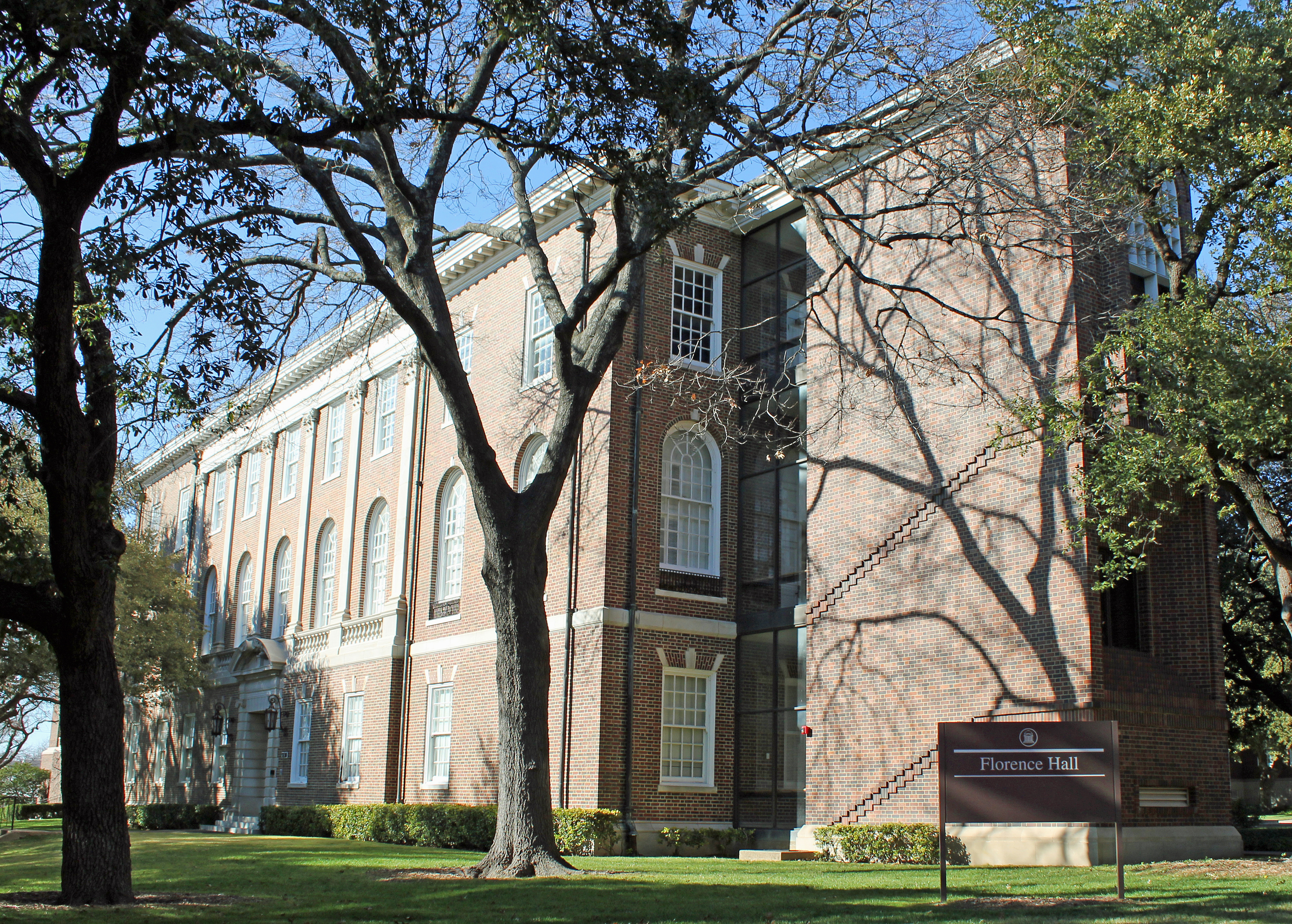 Fred Florence Hall, located at 3330 University Boulevard in Dallas, Texas. Located on the Southern Methodist University Campus, the building is listed on the National Register of Historic Places.